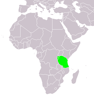 This map has been uploaded by Electionworld from to enable the Wikimedia Atlas of the World . Original uploader to was SpLoT, known as SpLoT at . Electionworld is not the creator of this map. Licensing information is below. A map showing the African borders at the time of the colony is here: Image:Karte Deutsch-Ostafrika.PNG